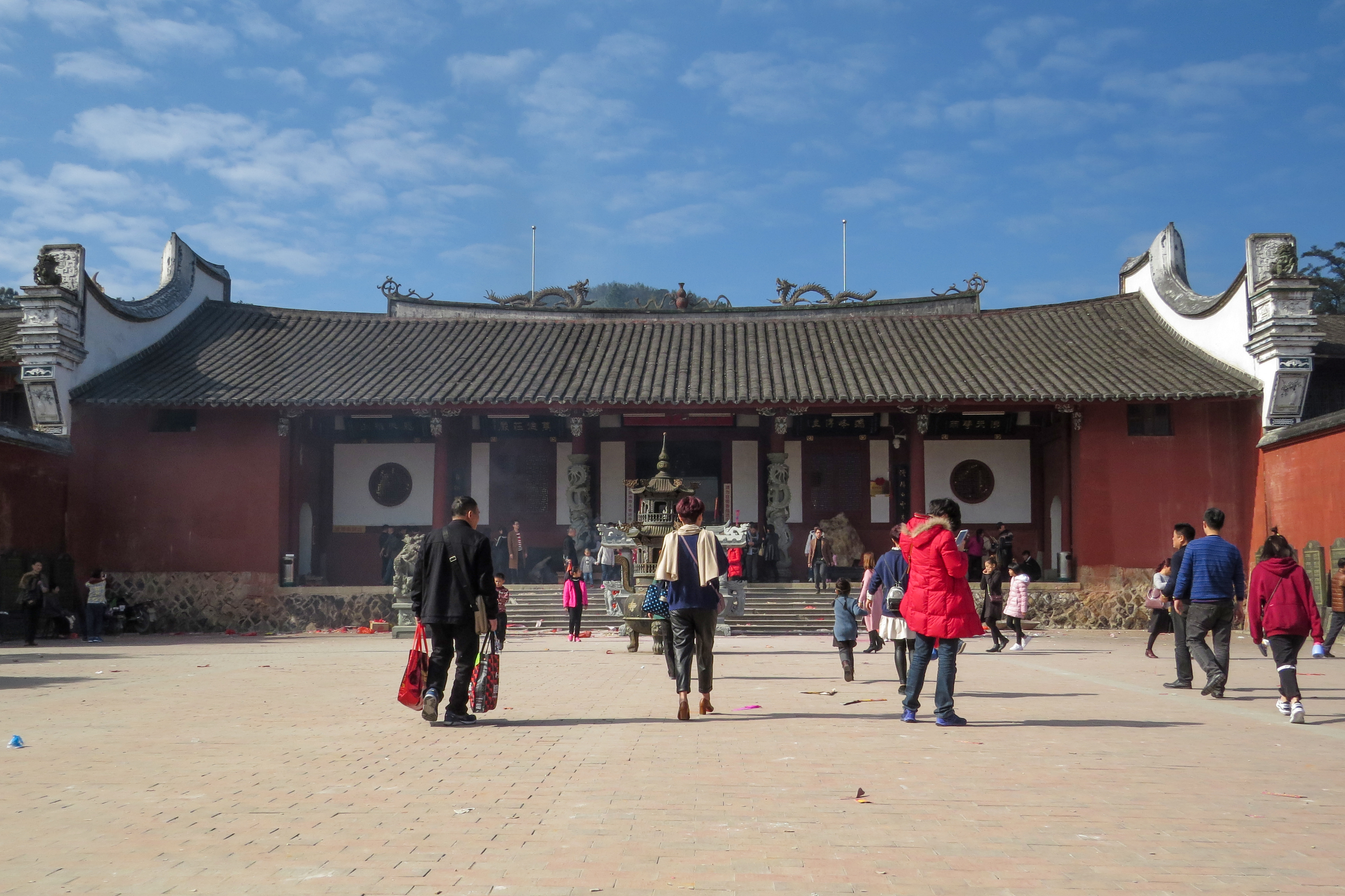 Most of the visitors come here to appreciate the plum blossom garden.